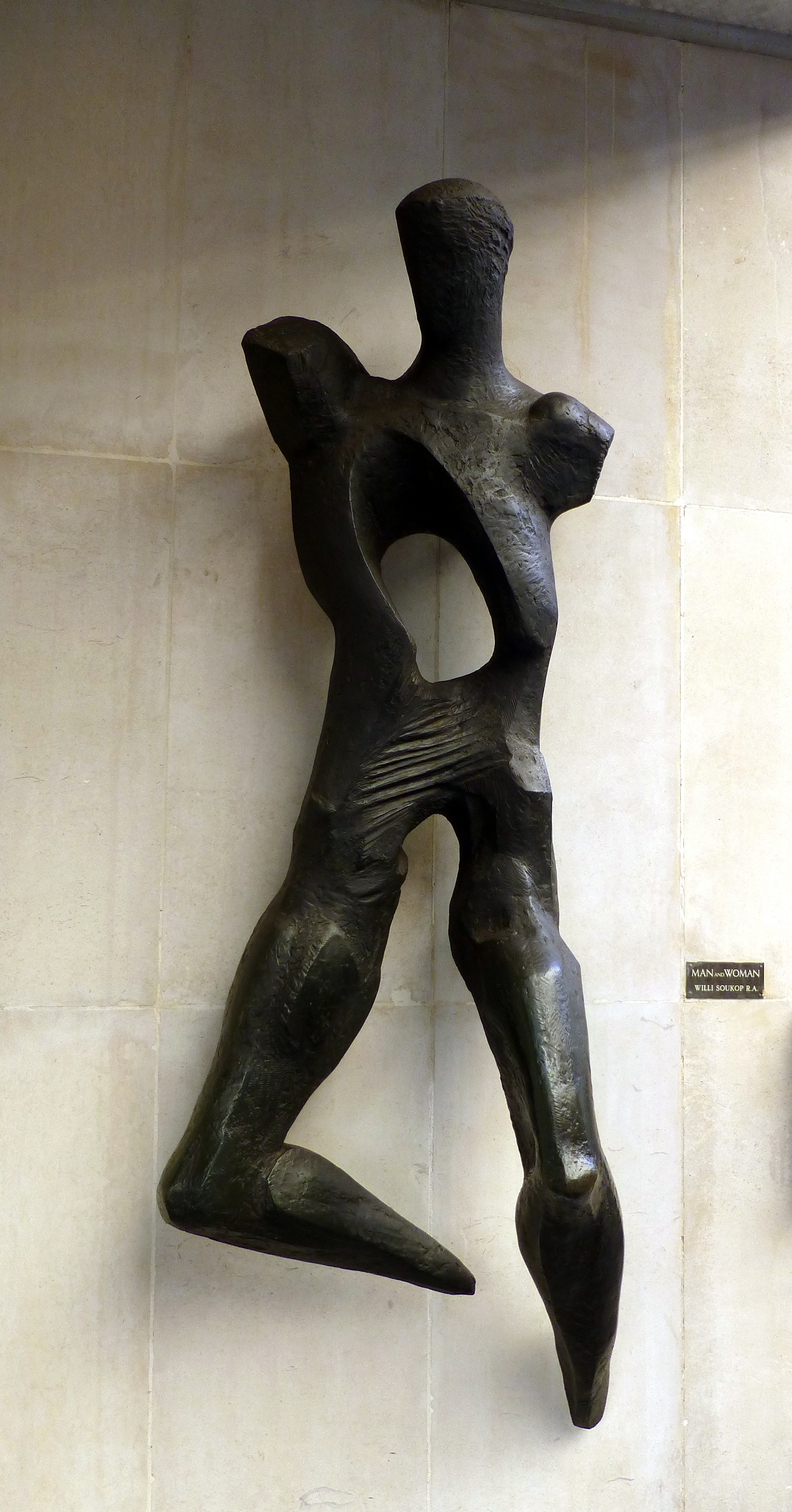 Willi Soukop’s sculpture of a man from 'Man and Woman' outside Albany House in Petty France